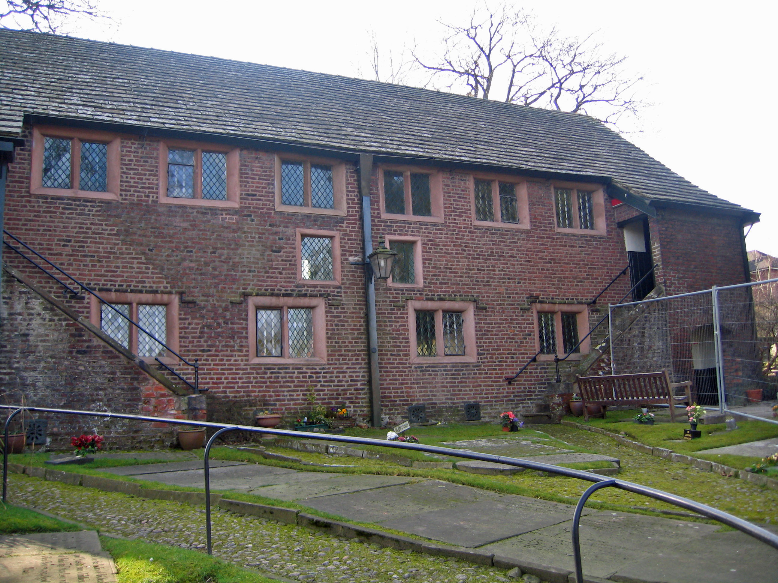 Photograph of Brook Street Chapel, Knutsford, Cheshire, England